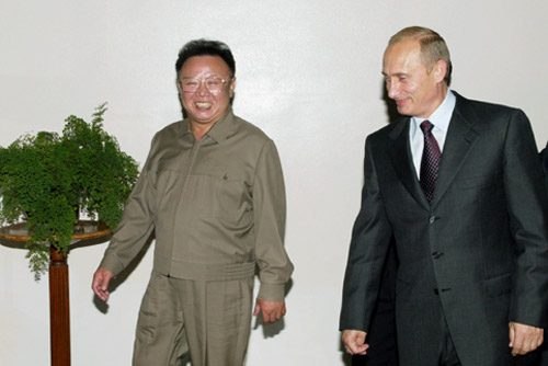 VLADIVOSTOK. President Putin with Kim Jong-Il, Chairman of the National Defence Commission of North Korea.